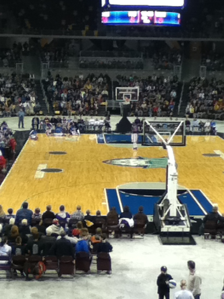 AMSOIL Arena on April 1,2011 when they hosted the Harlem Globetrotters.